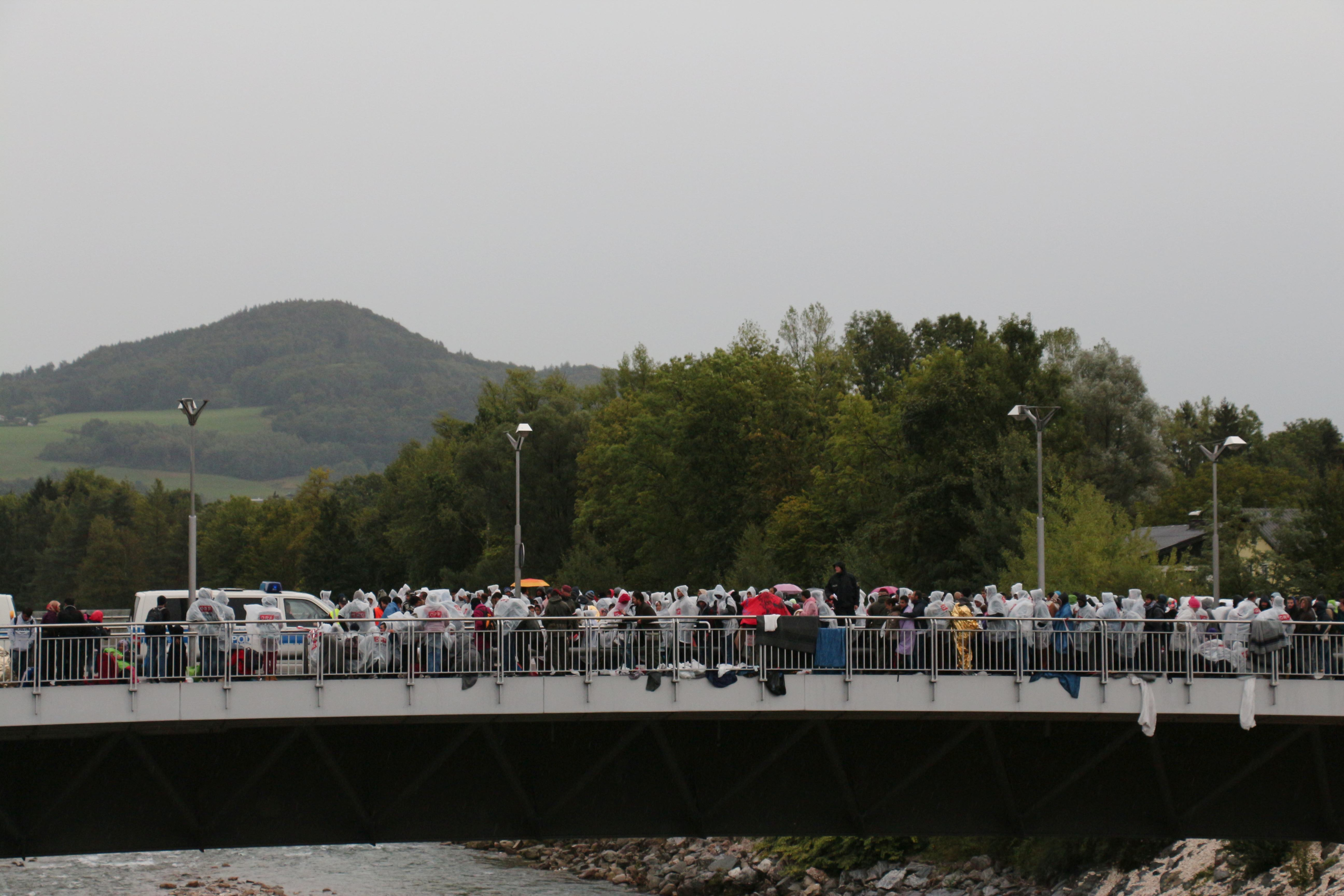 Migrant crisis in Europe September 2015: Refugees at the Austrian-German border at Salzburg in the morning waiting for registration. The mountain in the background of the scene is the Hochgitzen located in Bergheim municipality.